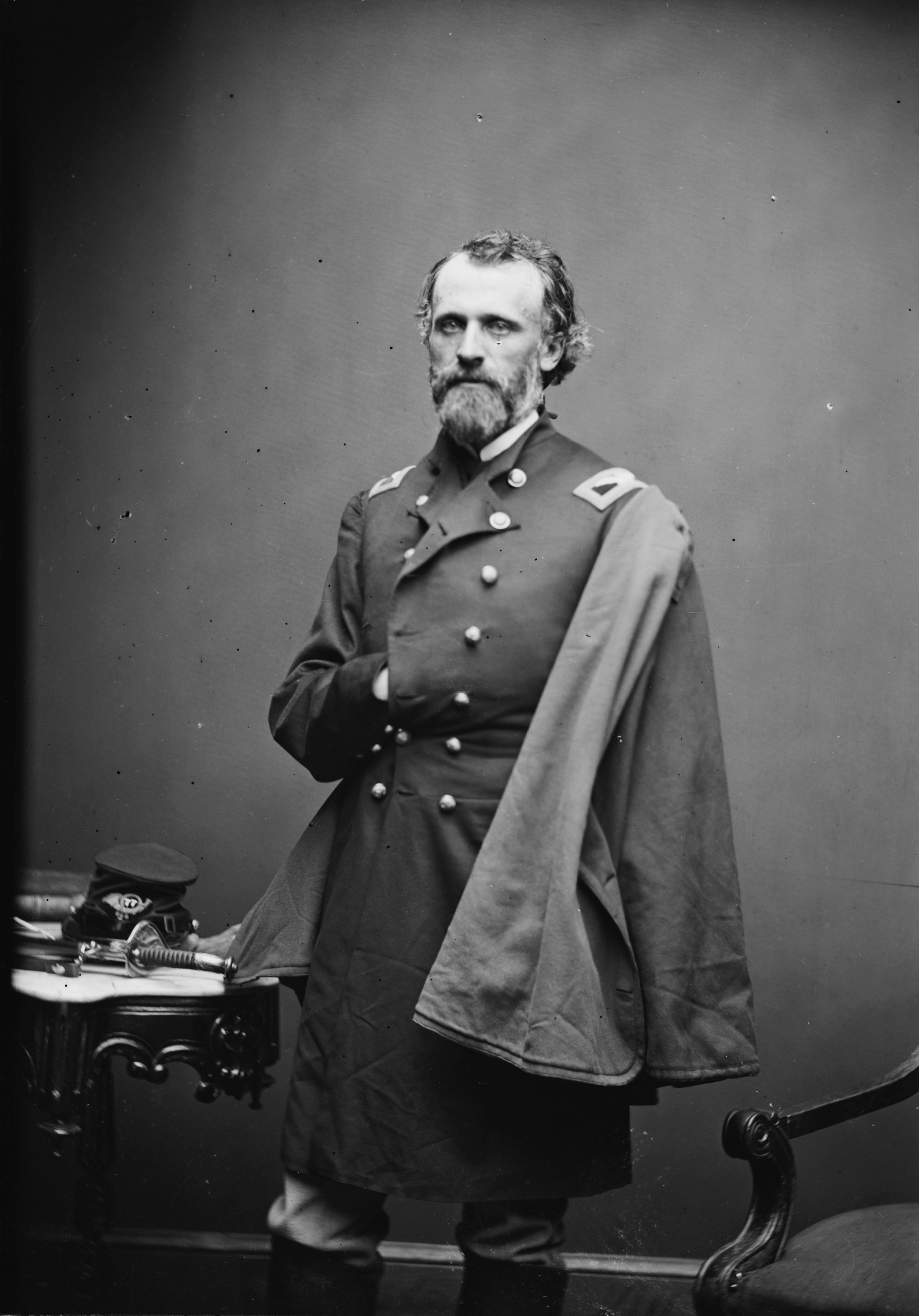 Title: Col. James B. McKean, 77th N.Y. Inf. Physical description: 1 negative